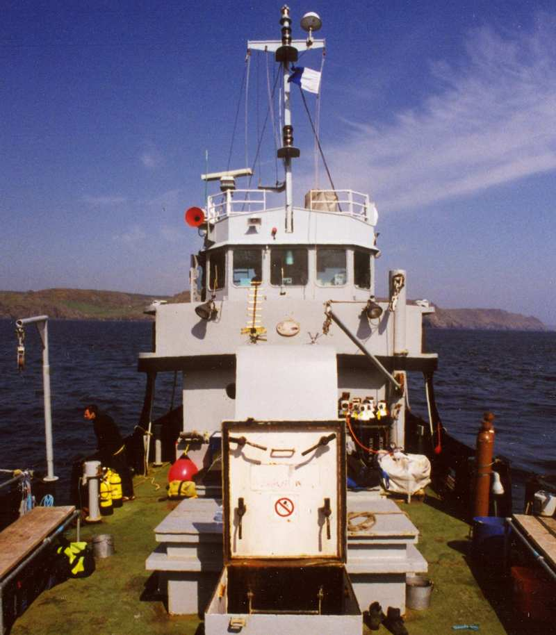 The RMAS Fleet Tender Loyal Watcher off the south coast of England, east of Plymouth.